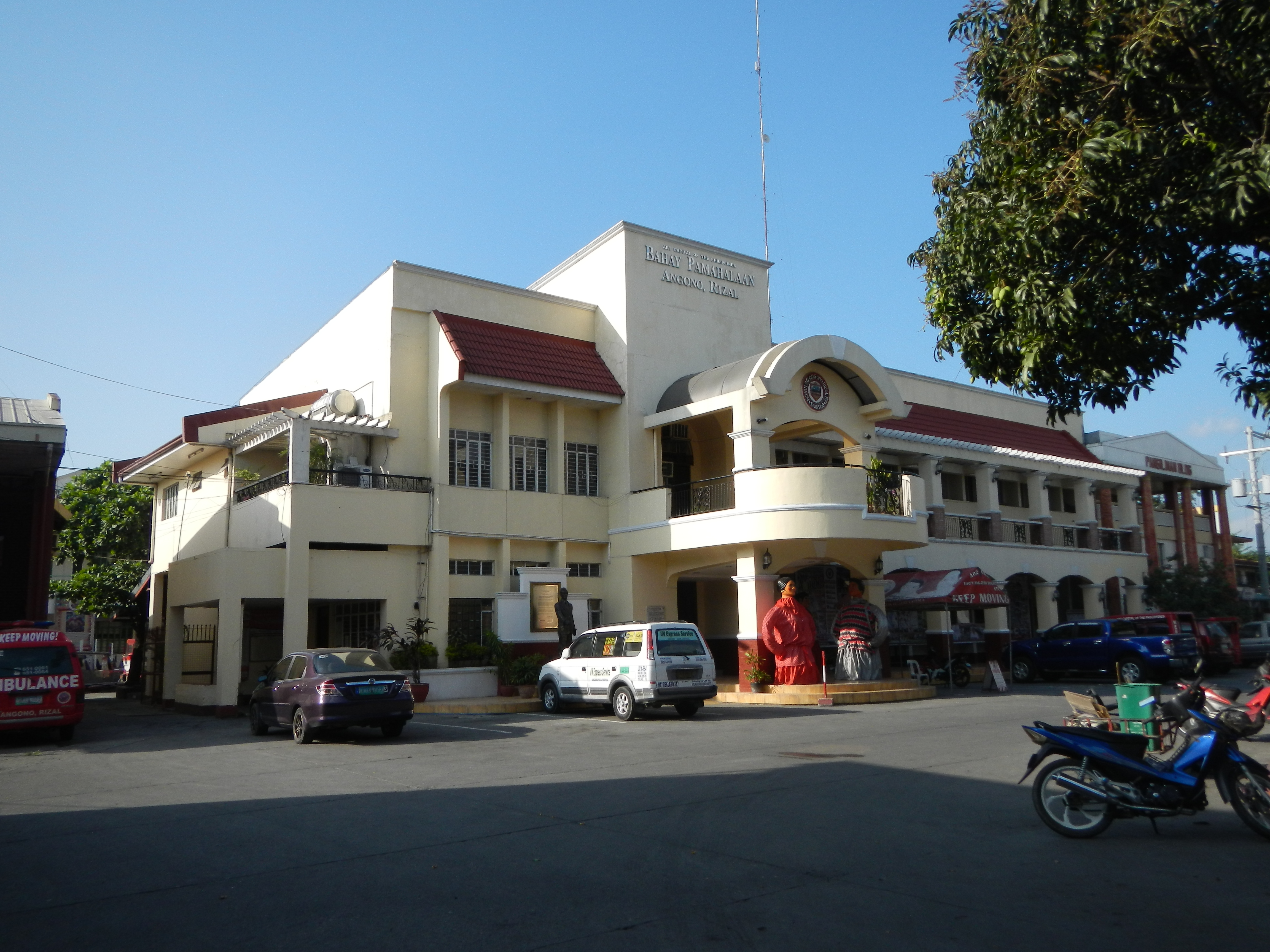 Angono, Rizal Rizal AngonoTown Proper, the busy National Highway to the Angono Town Hall Complex, Compound, ground floor, interiour, beside the Police station and Gymnasium, Multi-Purpose Covered Court, Rizal Centennial Monument and Plaza, beside the Angono Museum.